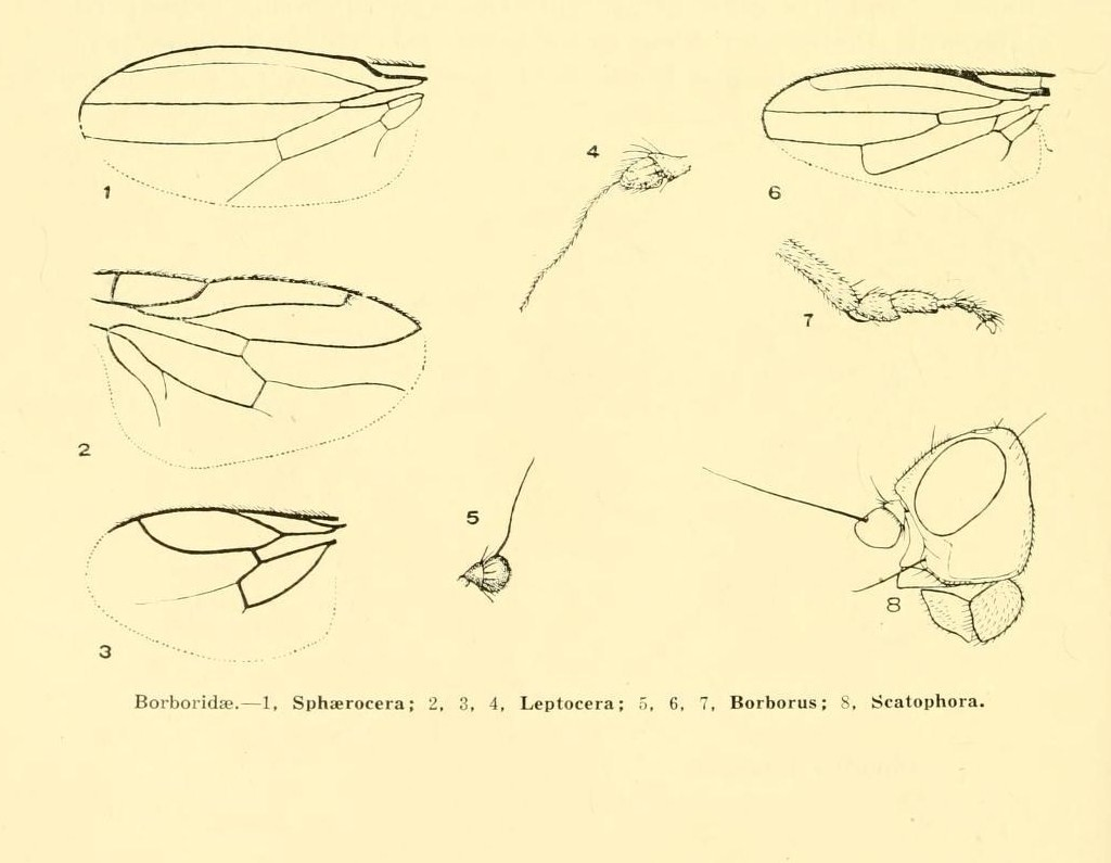 Charles Howard Curran , 1934 The families and genera of North American Diptera C.H. Curran in [New York] . Sphaeroceridae (as Borboridae) Illustration from S.W. Williston Manual of North American Diptera (1888, 1896, 1908